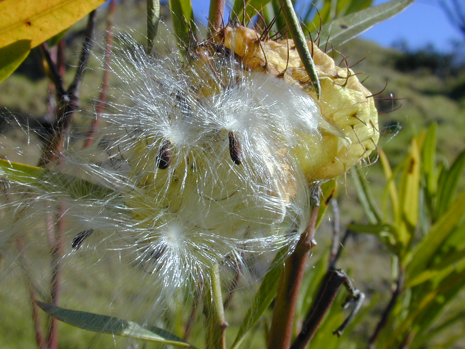 Asclepias physocarpa (seeds and pappus). Location: Maui, Auwahi